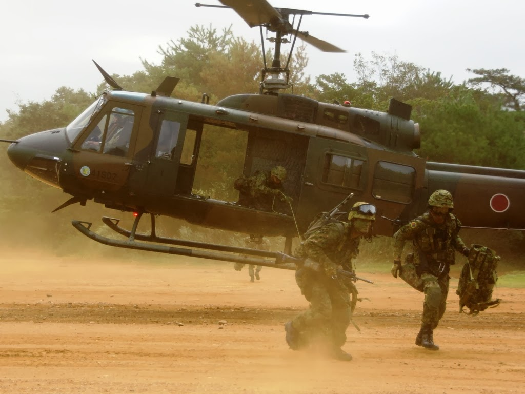 Title 第６次即応予備自衛官招集訓練・ヘリボン訓練（第４９普通科連隊・豊川）.JPG Album 教育訓練等 第６次即応予備自衛官招集訓練・ヘリボン訓練（第４９普通科連隊・豊川）